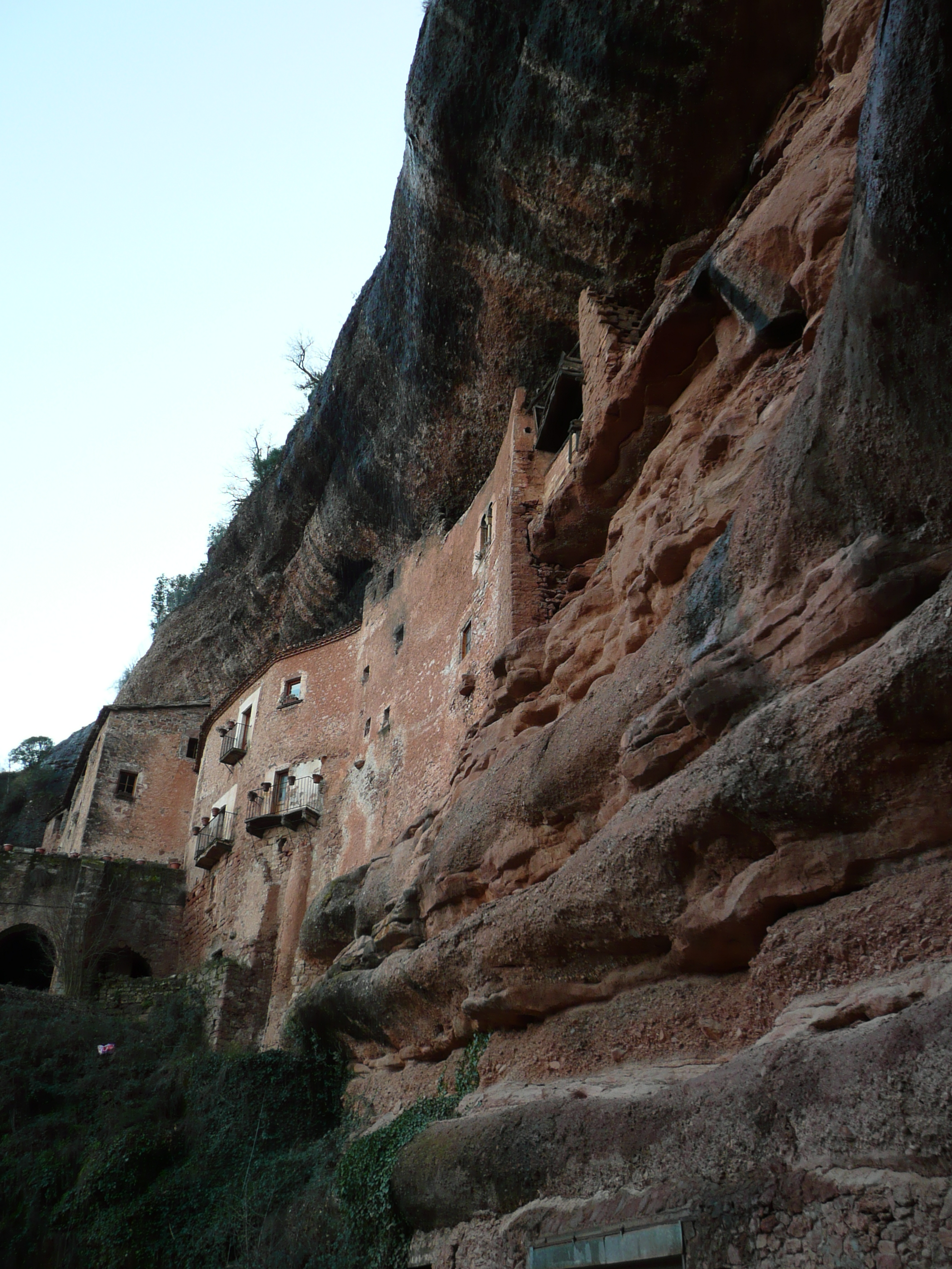 Puig de la Balma, XI century family seat (masía). Sant Llorenç del Munt i l'Obac natural park, Barcelona, Spain.